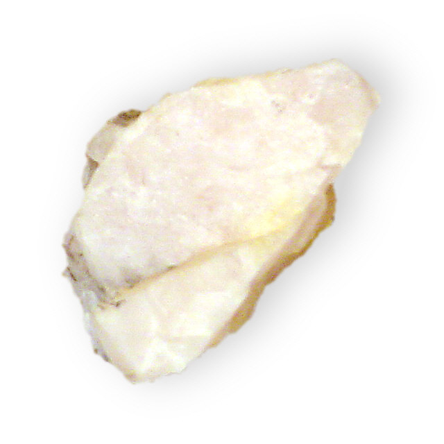 These mineral images are free to use how you wish.